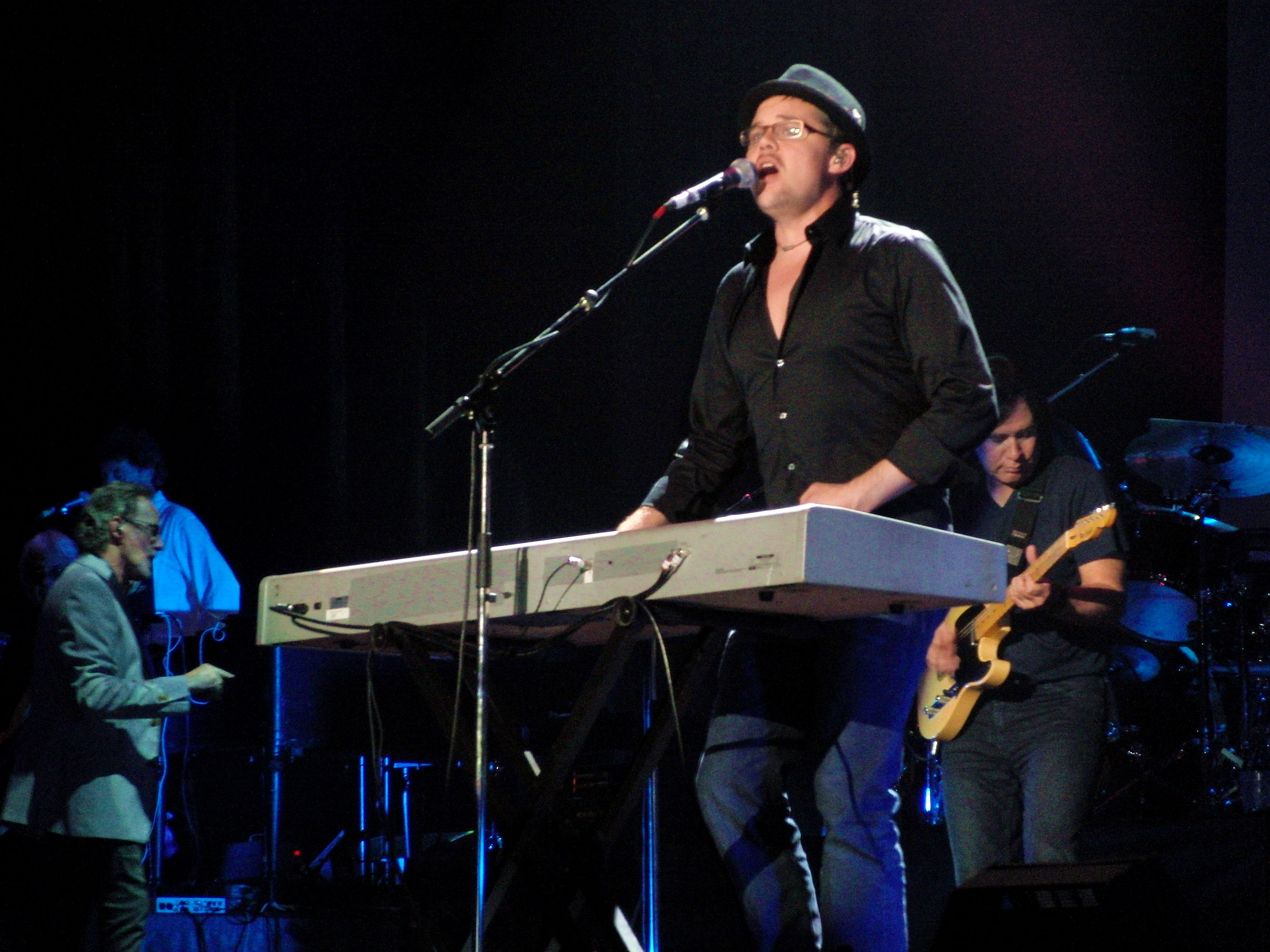 Supertramp in concert at the Palacio de Deportes (Sports Palace), Madrid, Spain. In foreground from left to right: John Helliwell, Gabe Dixon and Carl Verheyen. In background one can see Cliff Hugo and Rick Davies.